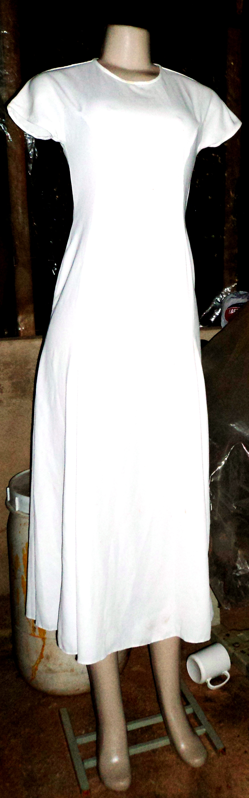 Image of mannequin en Brazil in 2012